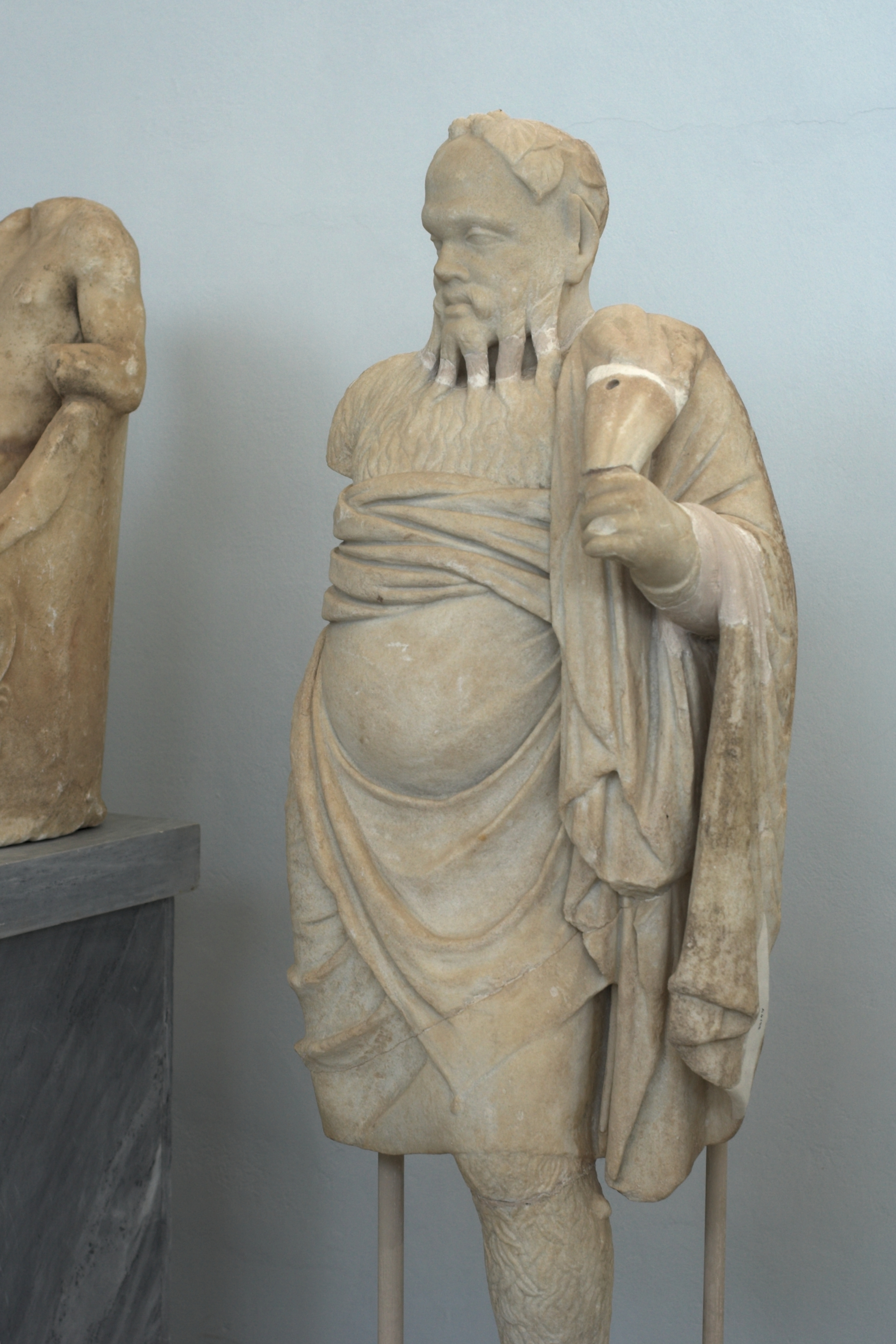 Silenus or Satyr. Museum of Delos.